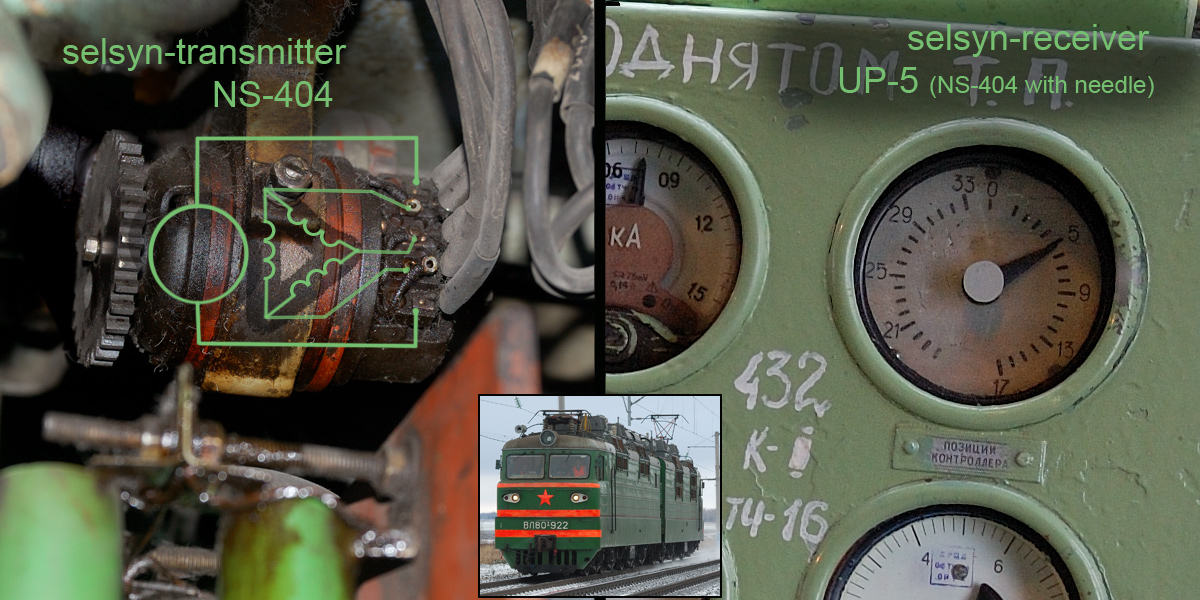 One-phase selsyn of VL80 electric locomotive